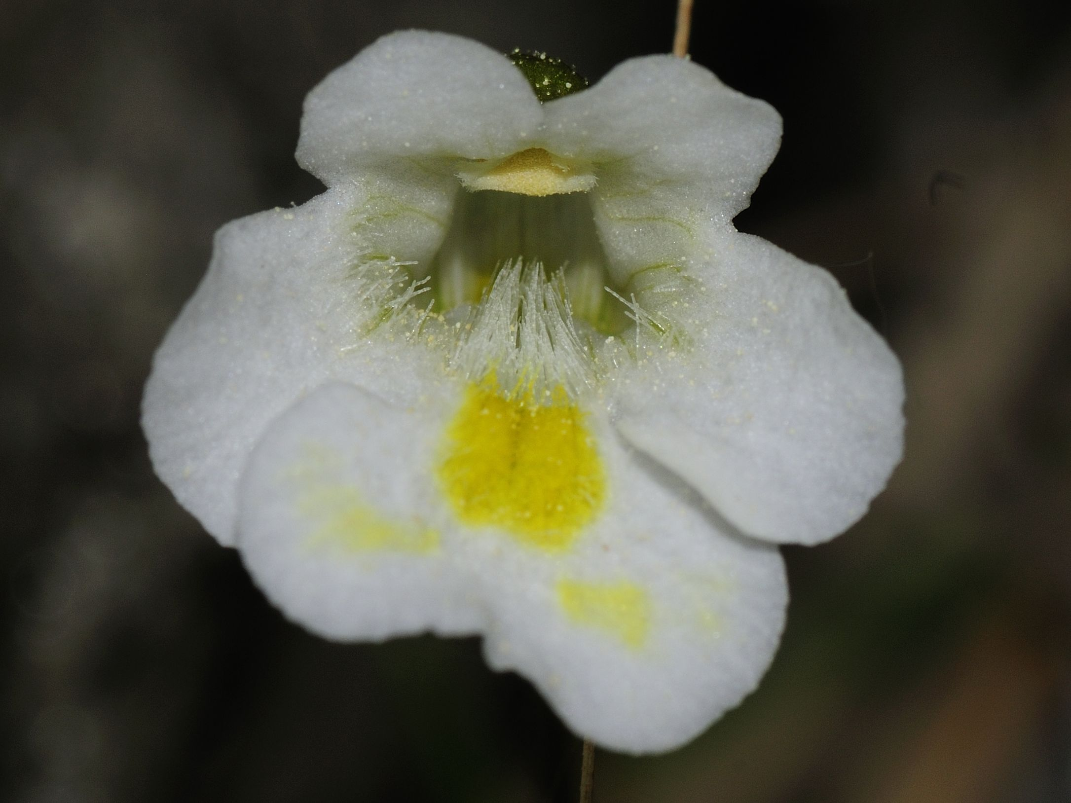 Please report references to .